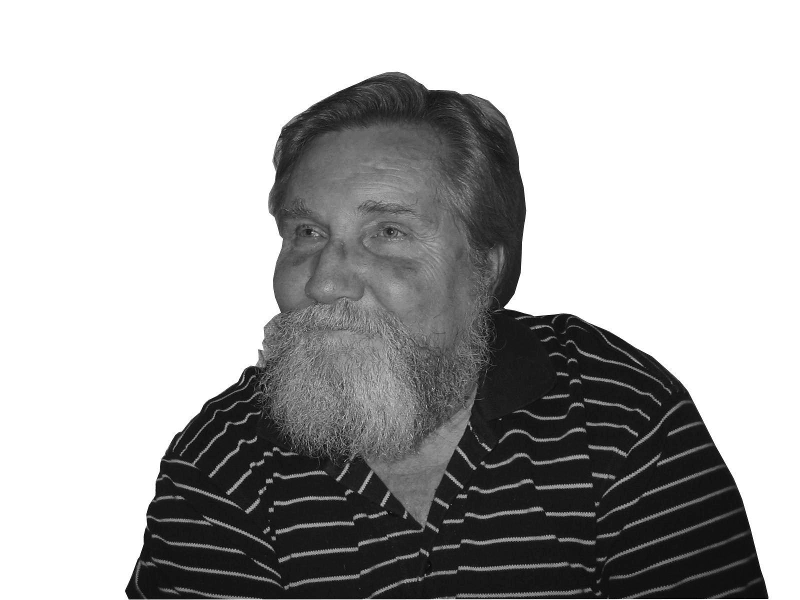 picture of Burckhard Garbe, writer